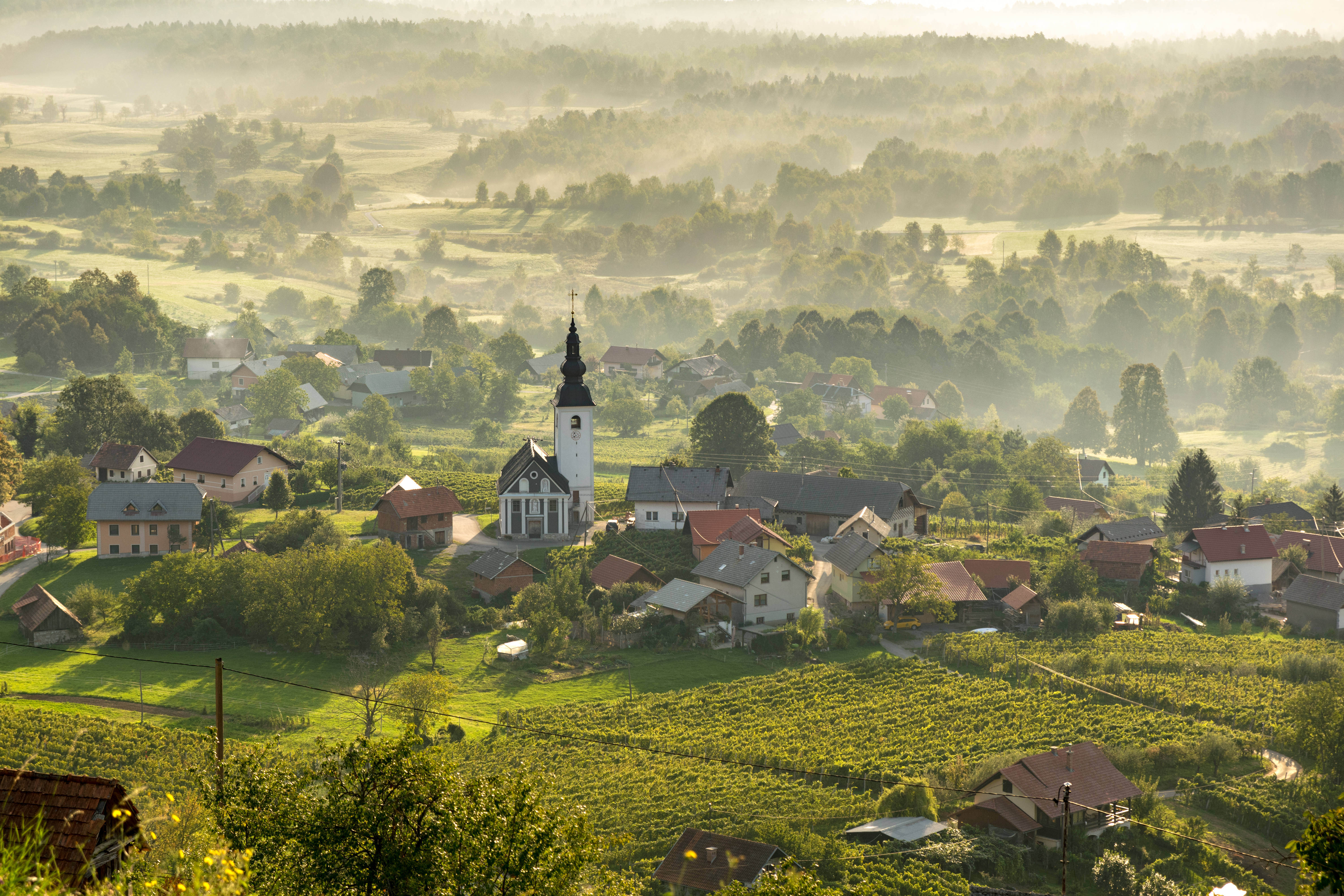 Hamlet of Spodnje Gorenjce with its St. Joseph's Church.